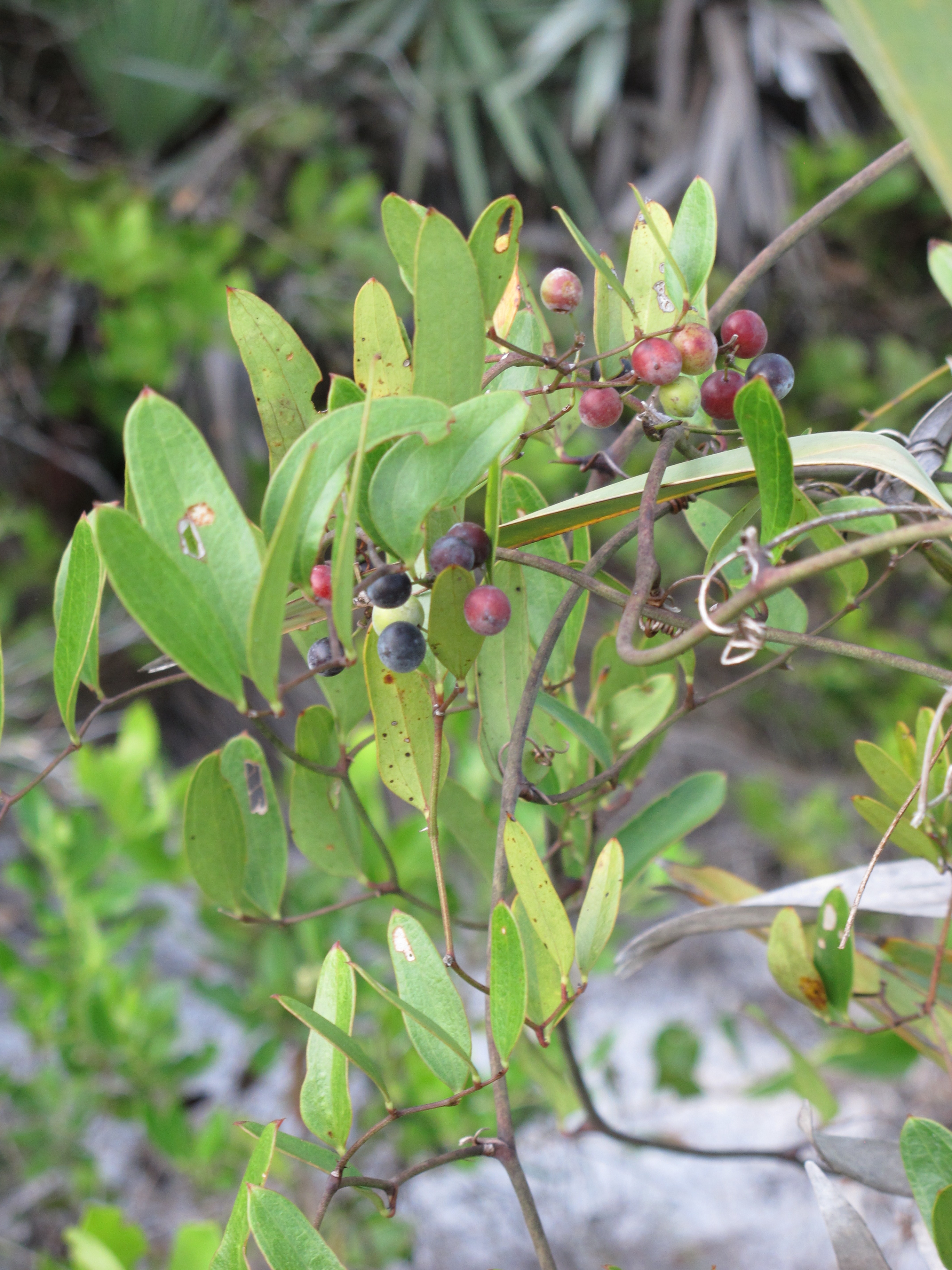 Smilax laurifolia at Yamato Scrub Natural Area, Boca Raton, Palm Beach County, Florida, USA.